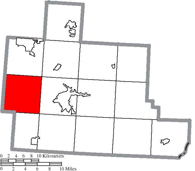 Map of the municipal and township boundaries of Athens County, Ohio, United States, as of the 2000 census, with the location of Waterloo Township highlighted. Township borders are shown only in unincorporated areas in order to differentiate incorporated and unincorporated areas more clearly.